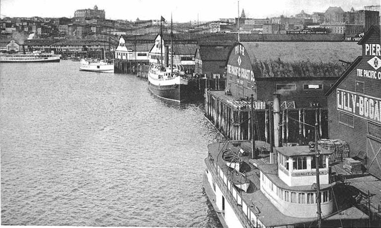 Elliott Bay and the Seattle waterfront, looking north from the Pacific Coast Co. dock, no later than 1906. In the background is the Washington Hotel atop Denny Hill. Shortly after this photo was taken, the hotel was demolished and that portion of the hill was regraded. This is part of a 1907 postcard, with the caption removed.